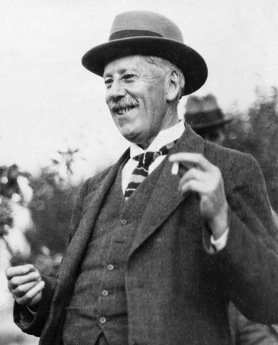 Sir Francis Heath and Sir Thomas Hill Easterfield, ca 1926. Taken by an unidentified photographer.